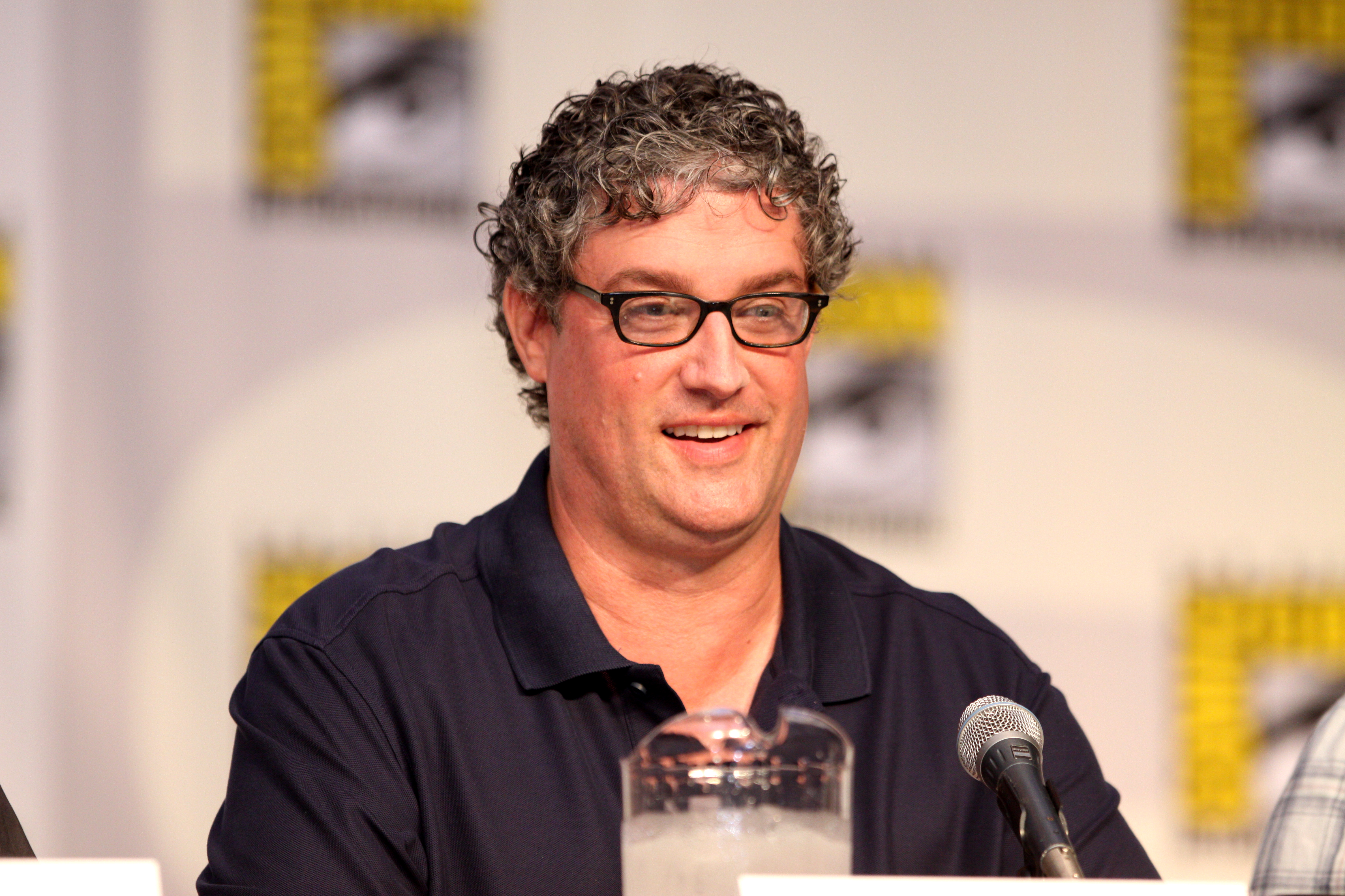 Writer and showrunner Al Jean on The Simpsons panel at the 2010 San Diego Comic Con in San Diego, California.